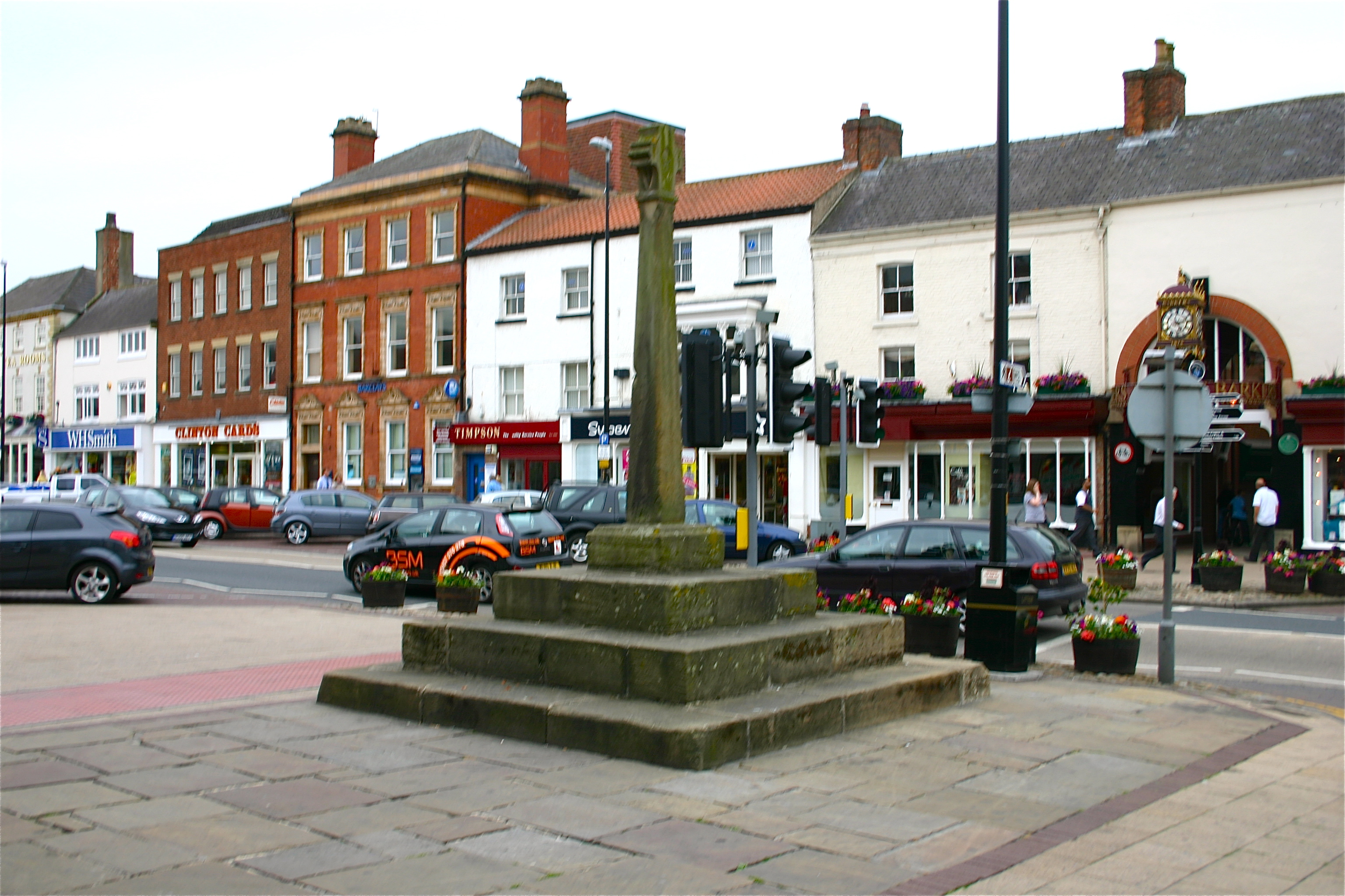 The town cross in the centre of the high street.